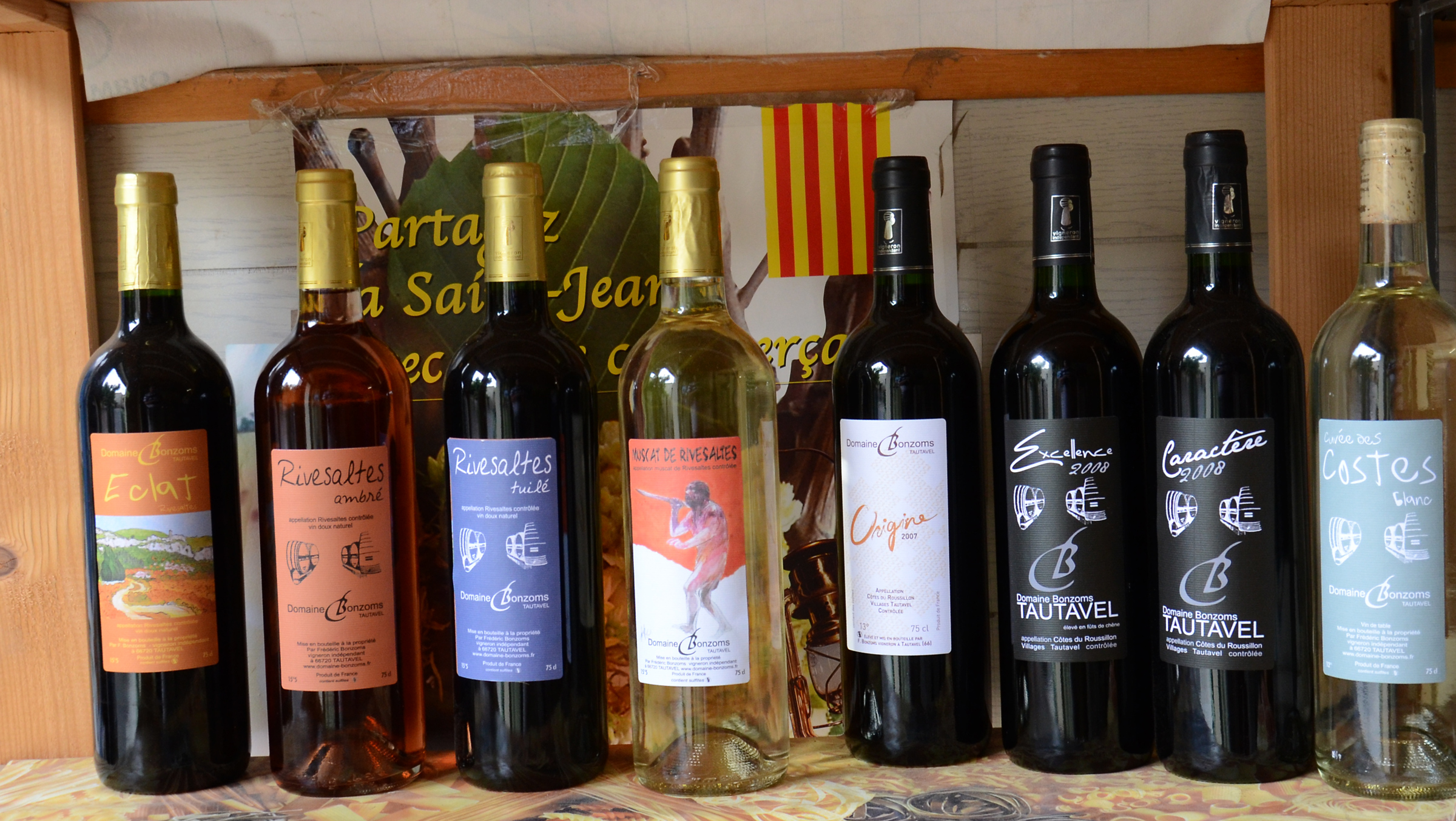 Tautavel AOC